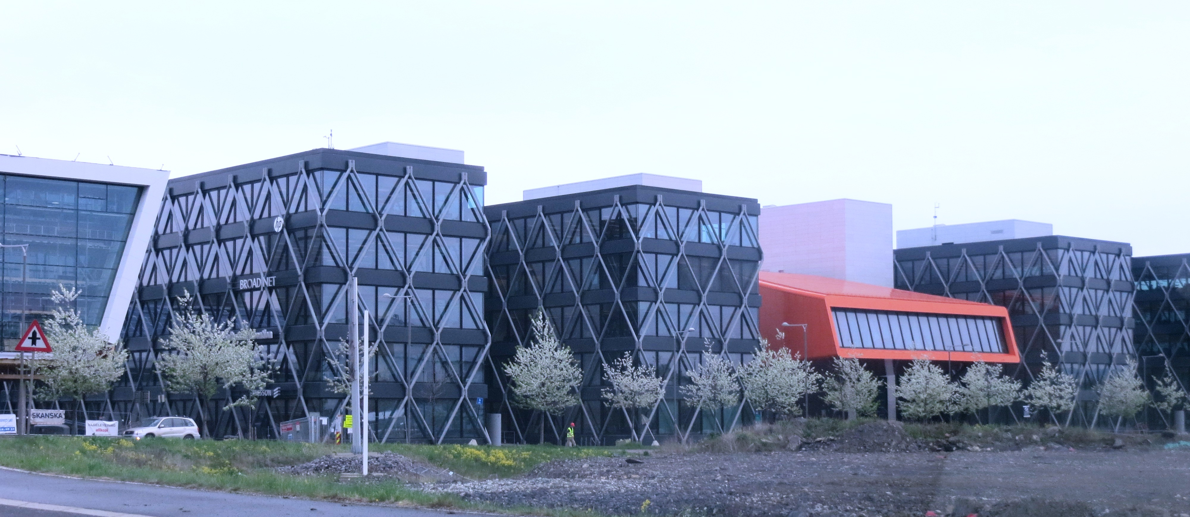 IT Fornebu, a hightech cluster just outside Oslo, Norway.